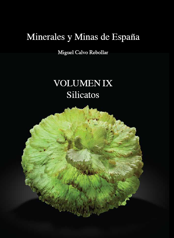 Dustjacket of the vol. 9 , silicates, of the book Minerales y Minas de España (Minerals and Mines for Spain) from Miguel Calvo Rebollar, published in 2018